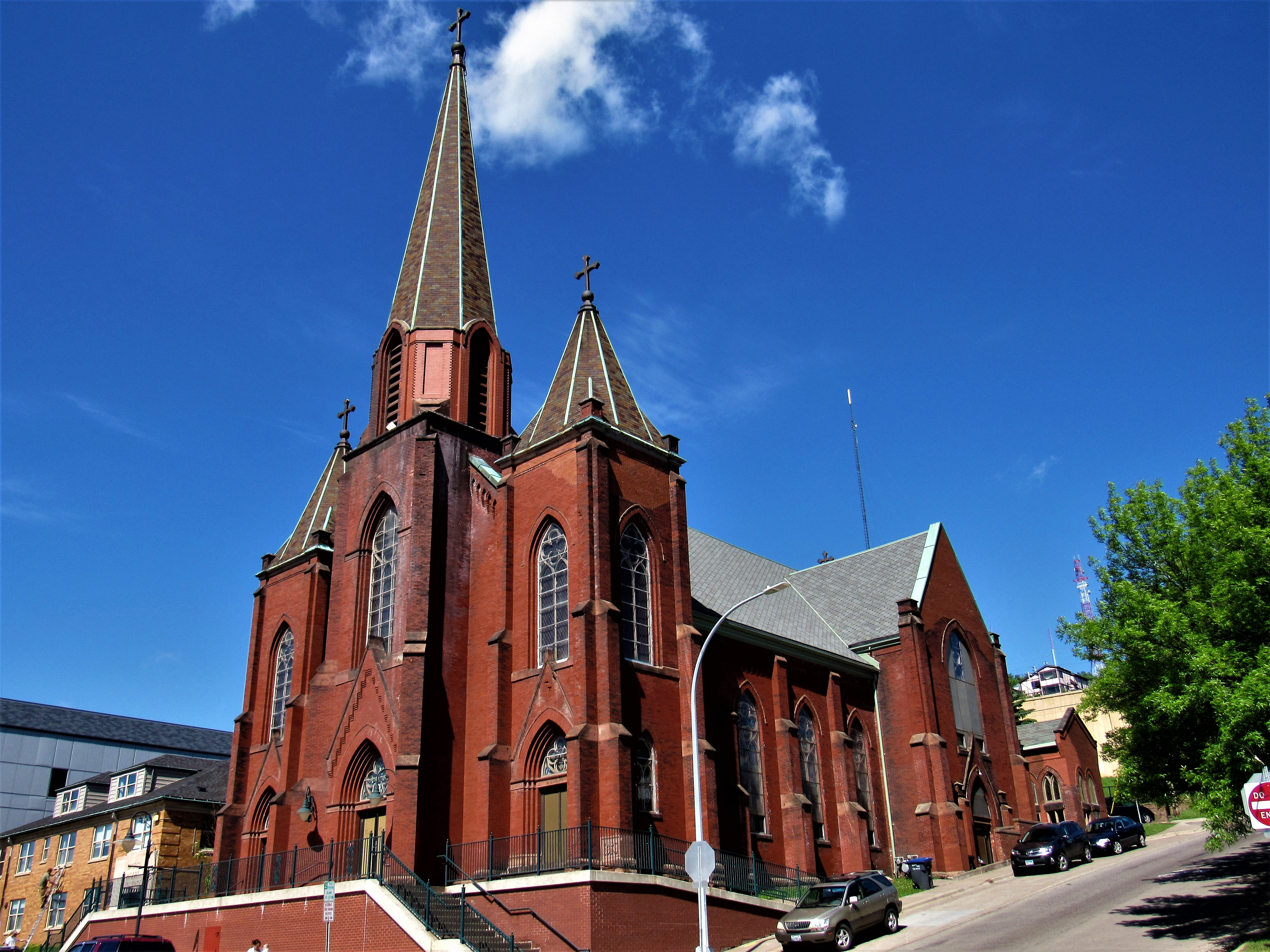 Sacred Heart Music Center, formerly Sacred Heart Cathedral, in Duluth, Minnesota.